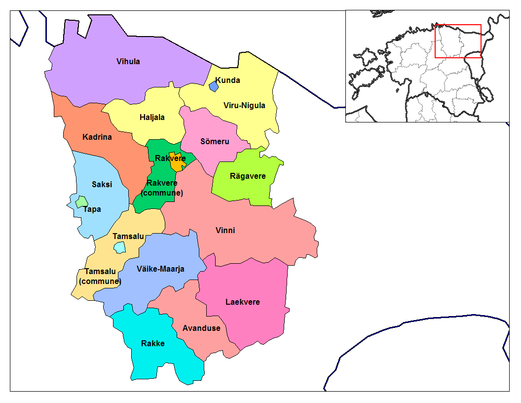 Map of the municipalities of Laane-Viru county in Estonia. Created by Rarelibra 17:34, 22 December 2006 (UTC) for public domain use, using MapInfo Professional v8.5 and various mapping resources.